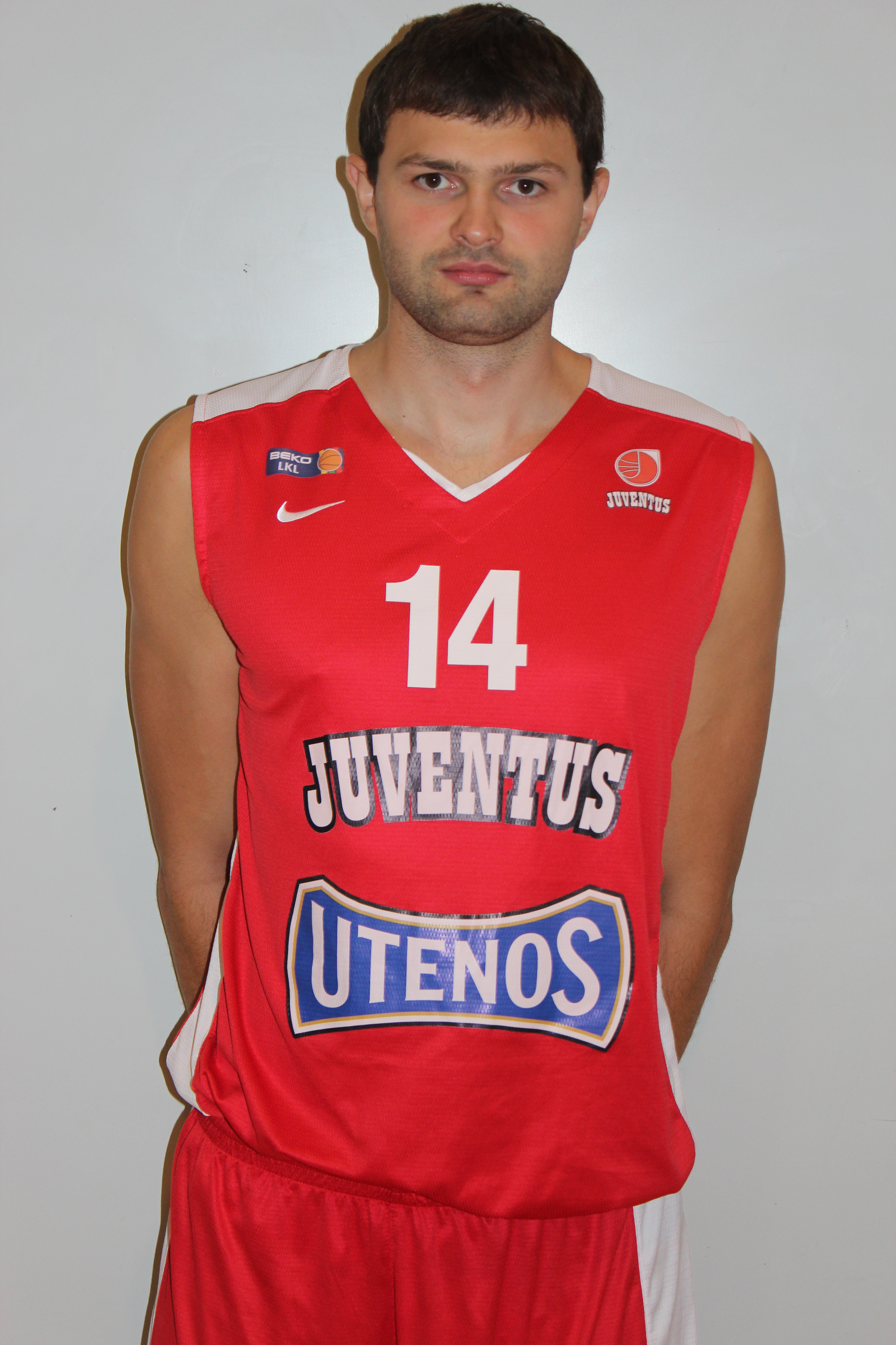 Photo of BC Juventus player Vaidas Čepukaitis during the 2014-15 season.